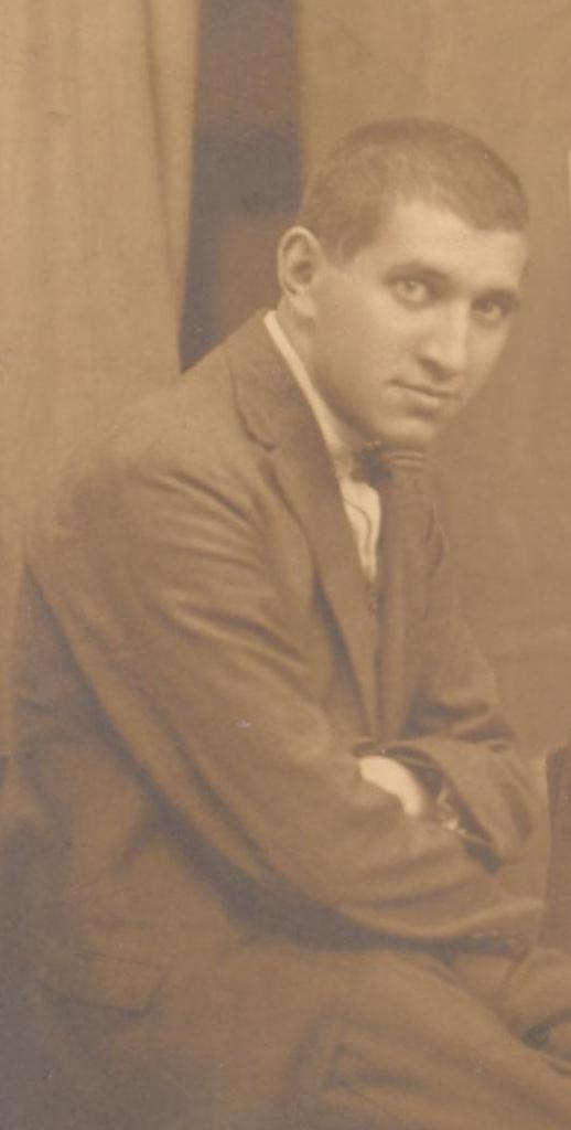 Todor Borov